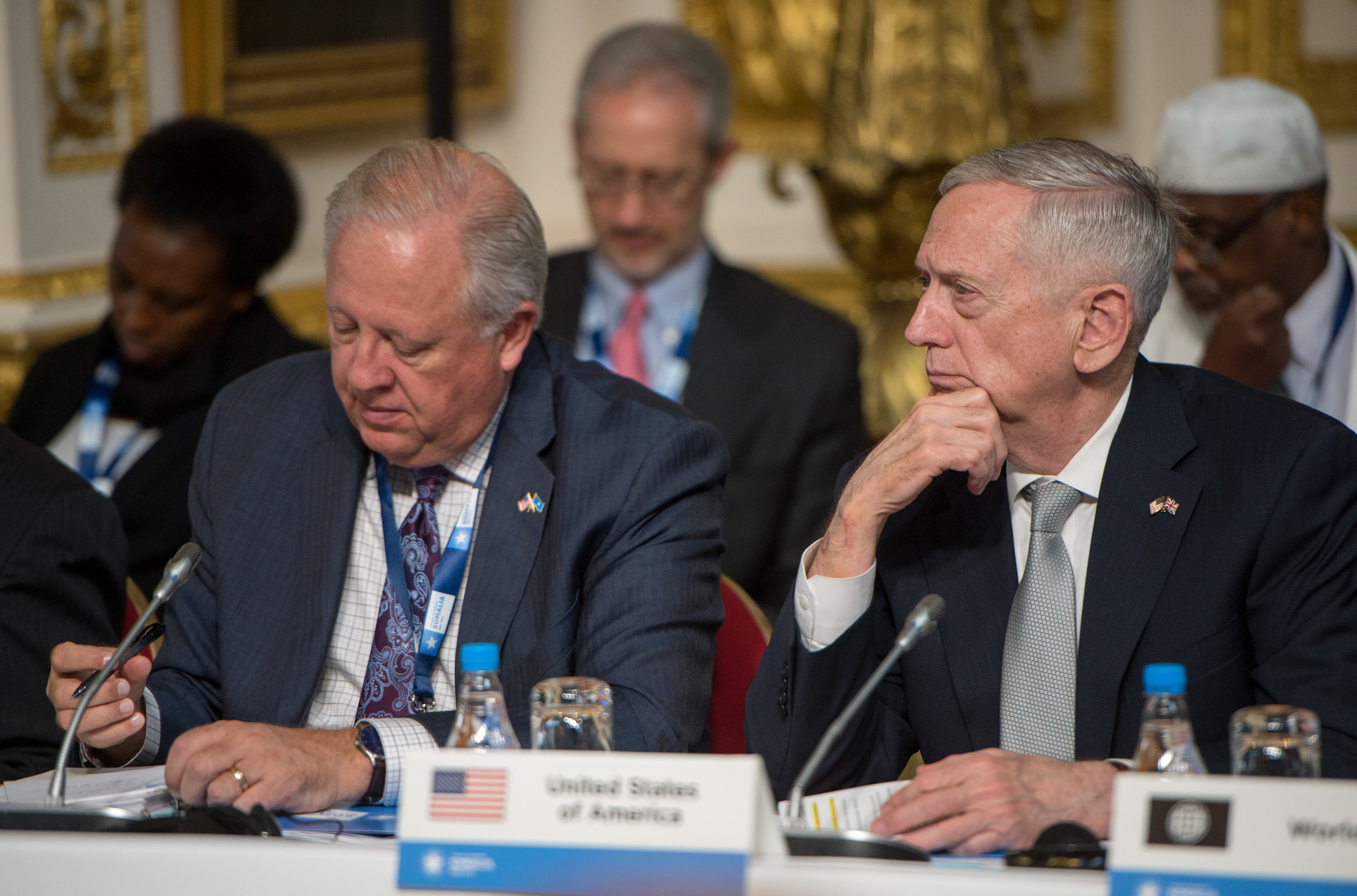 Secretary of Defense Jim Mattis and Thomas Shannon, the under secretary of state for political affairs, attend the London Somalia Conference at the Lancaster House in London on May 11, 2017. (DOD photo by U.S. Air Force Staff Sgt. Jette Carr)